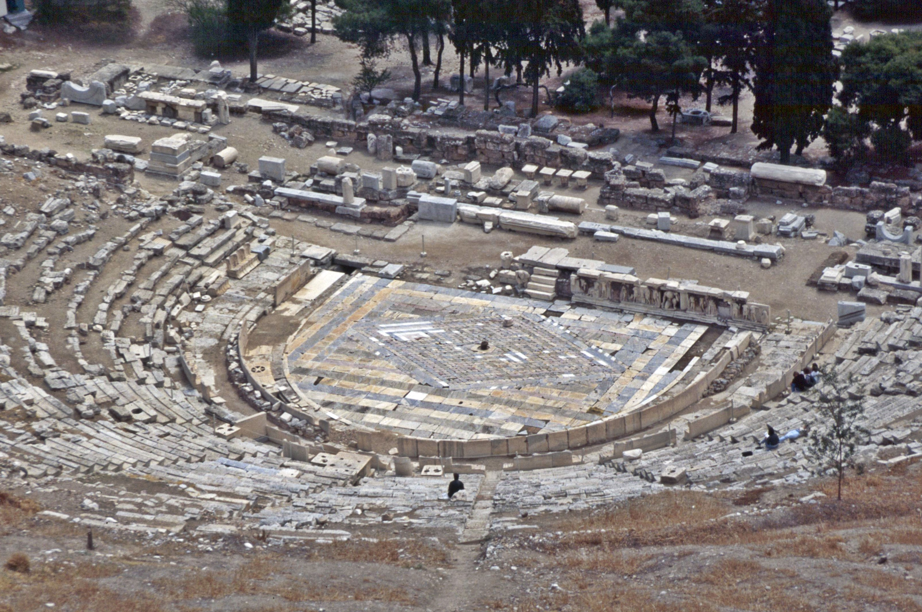 Dionysos-Theater in Athen